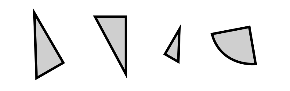 An example of geometric congruence. The first two figures on the left are congruent. The third is only similar. The last object is neither. Drawn in Inkscape by Ilmari Karonen. SVG original available at [1].